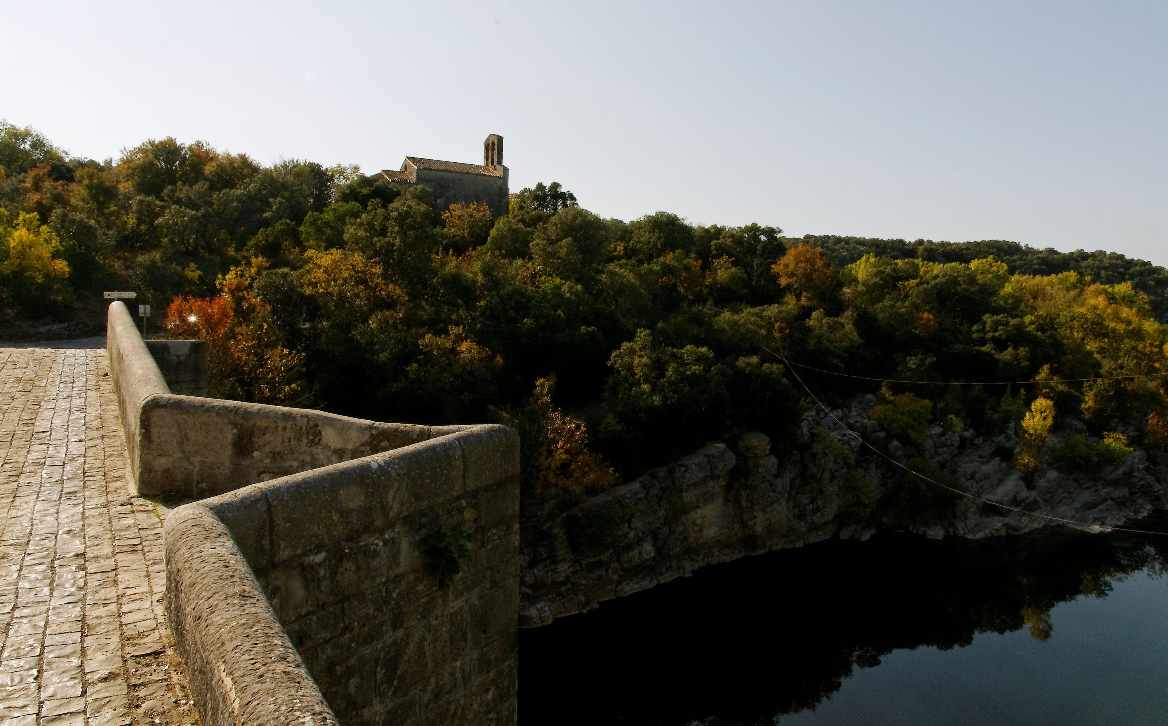 Saint-Étienne d'Issensac chapel viewed from Issensac bridge .